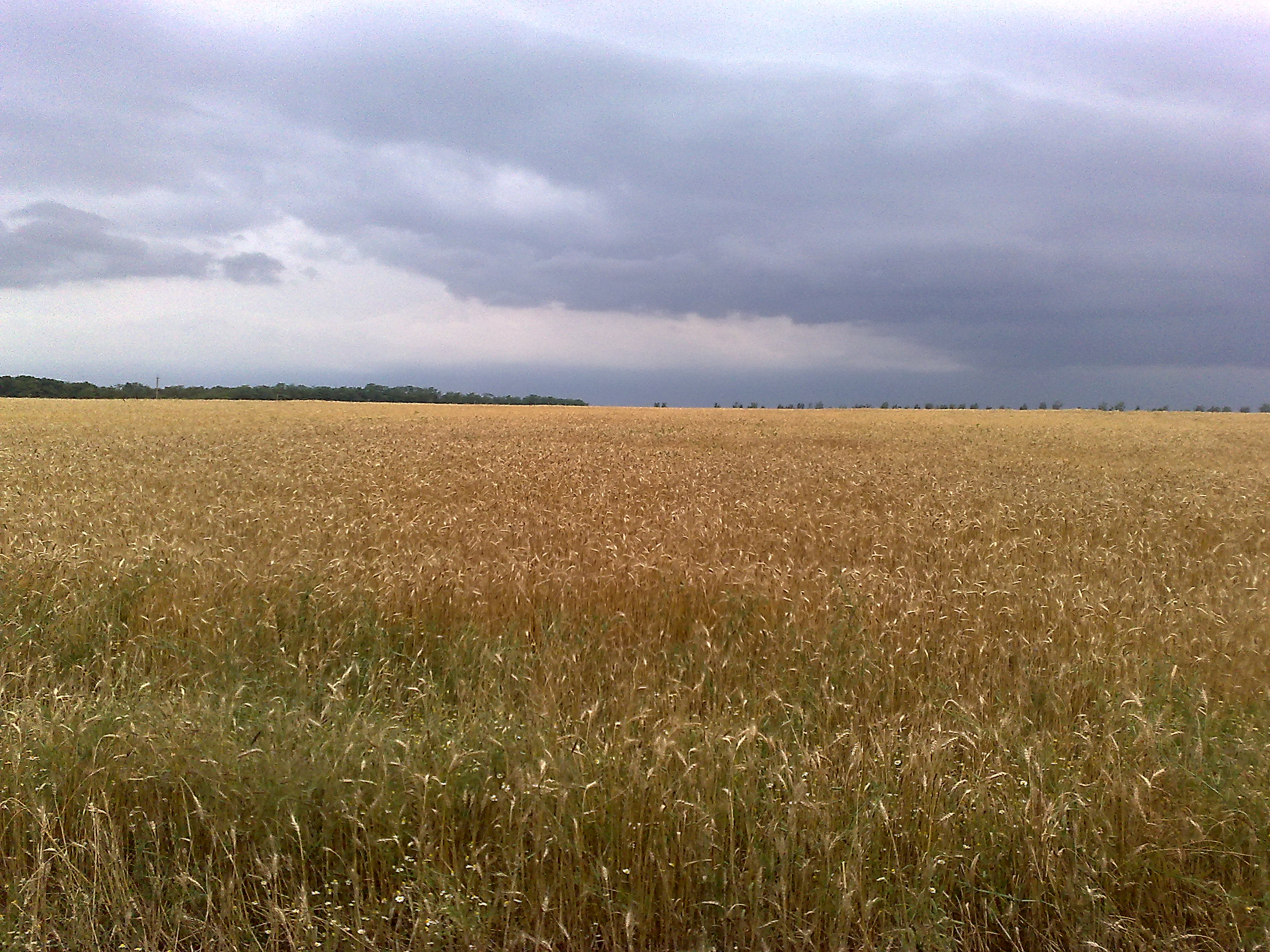 Outskirts of Goncharka, Adygea, Russia.